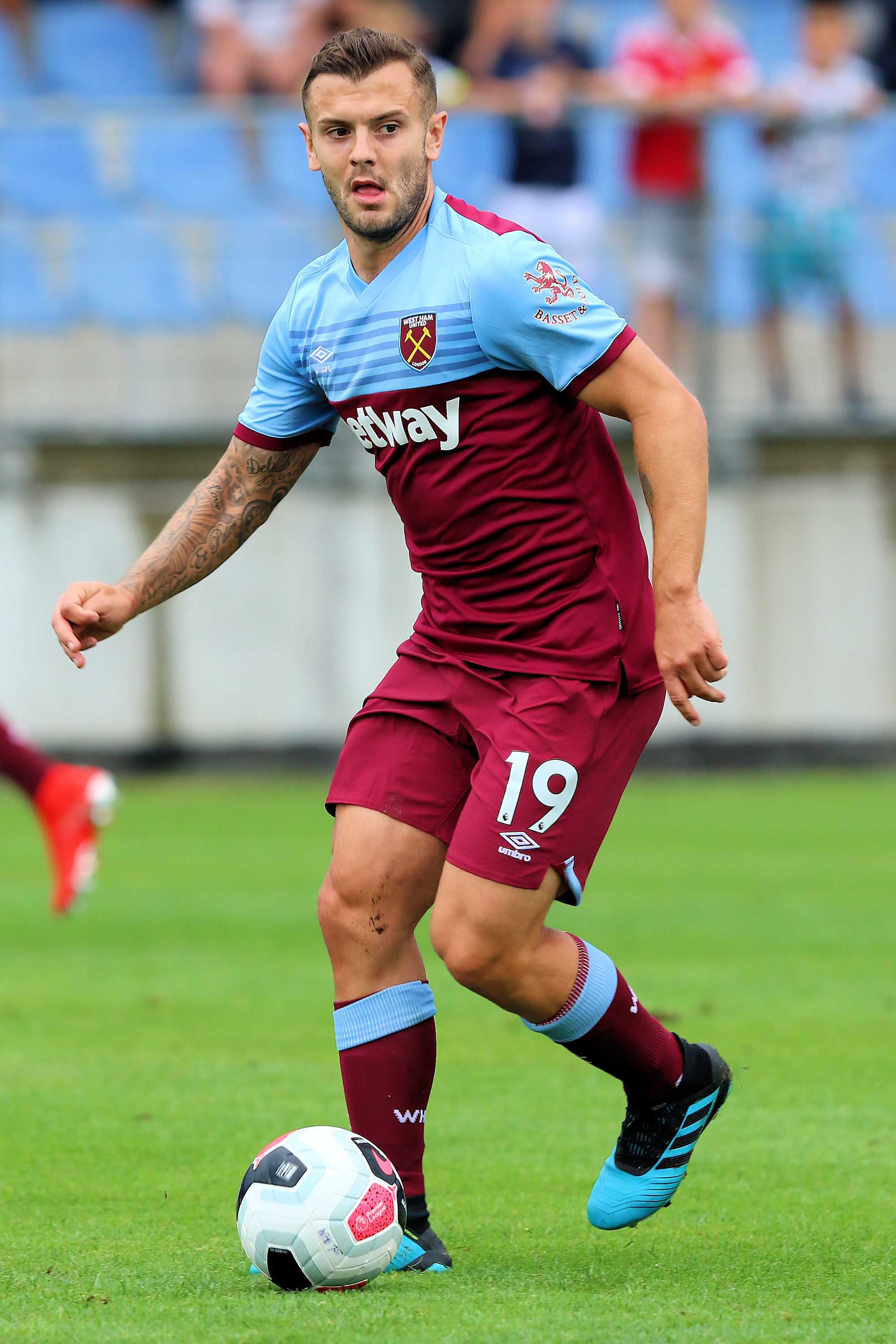 Friendly match Hertha BSC (blue-white shirts) vs. West Ham United (red-blue shirts) at 31-07-2019 3-5 (3-2) in the Sonnenseestadium in Ritzing. – The photo shows Jack Wilshere (West Ham United).